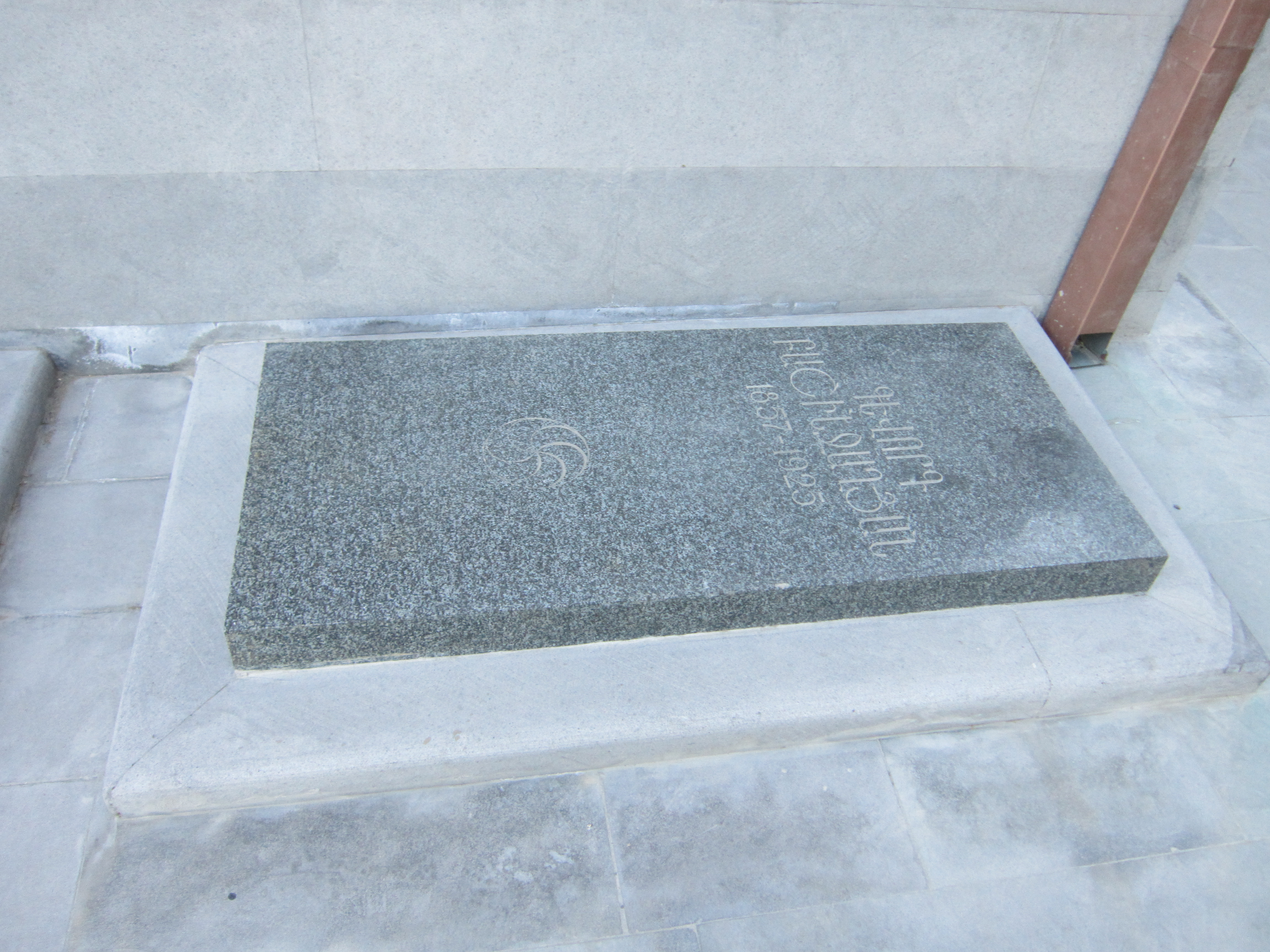 The tombstone of Gevorg Bashinjaghyan